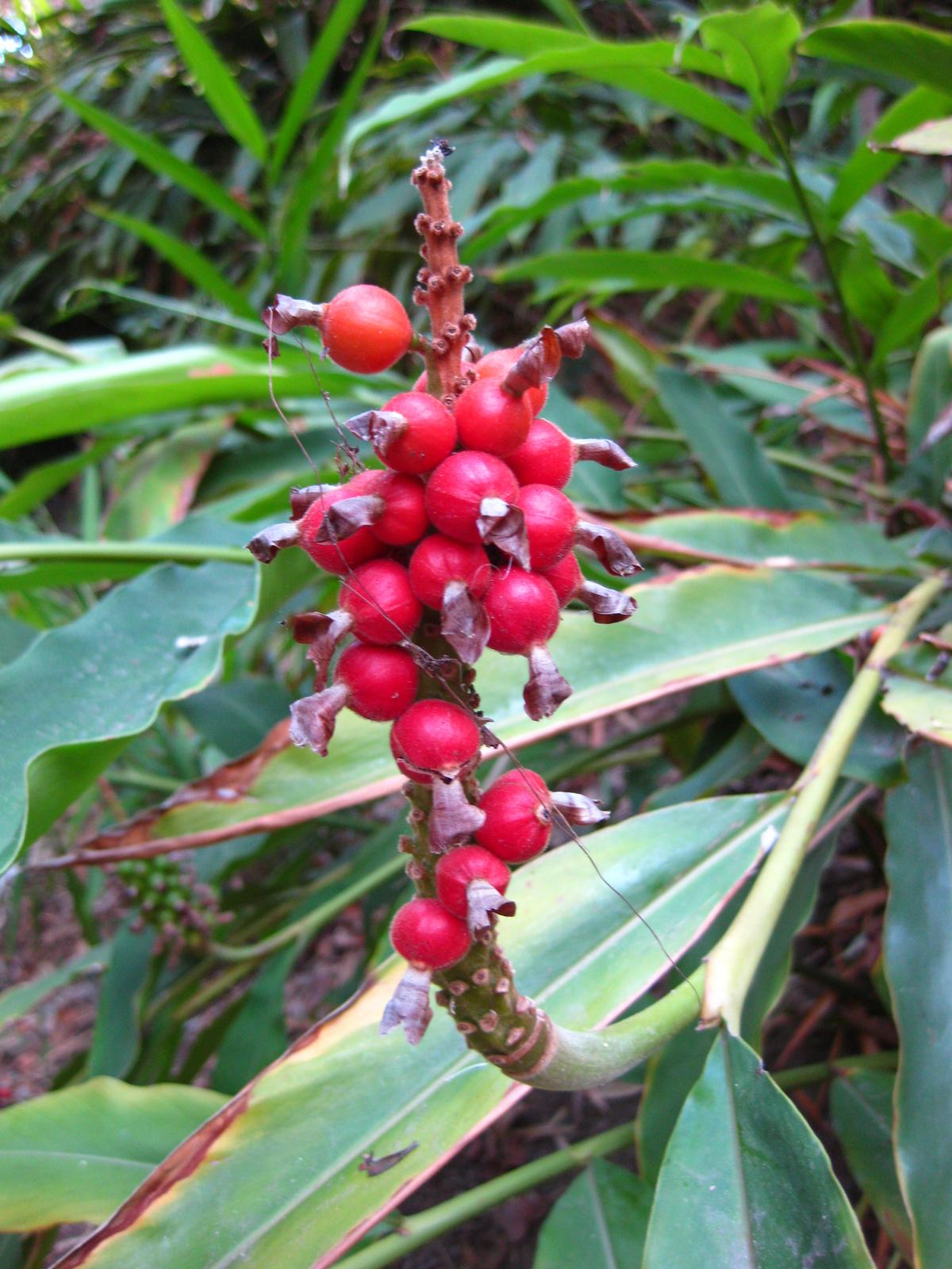 Photographed Mildred E. Mathias Botanical Garden at UCLA (Los Angeles, California) in November